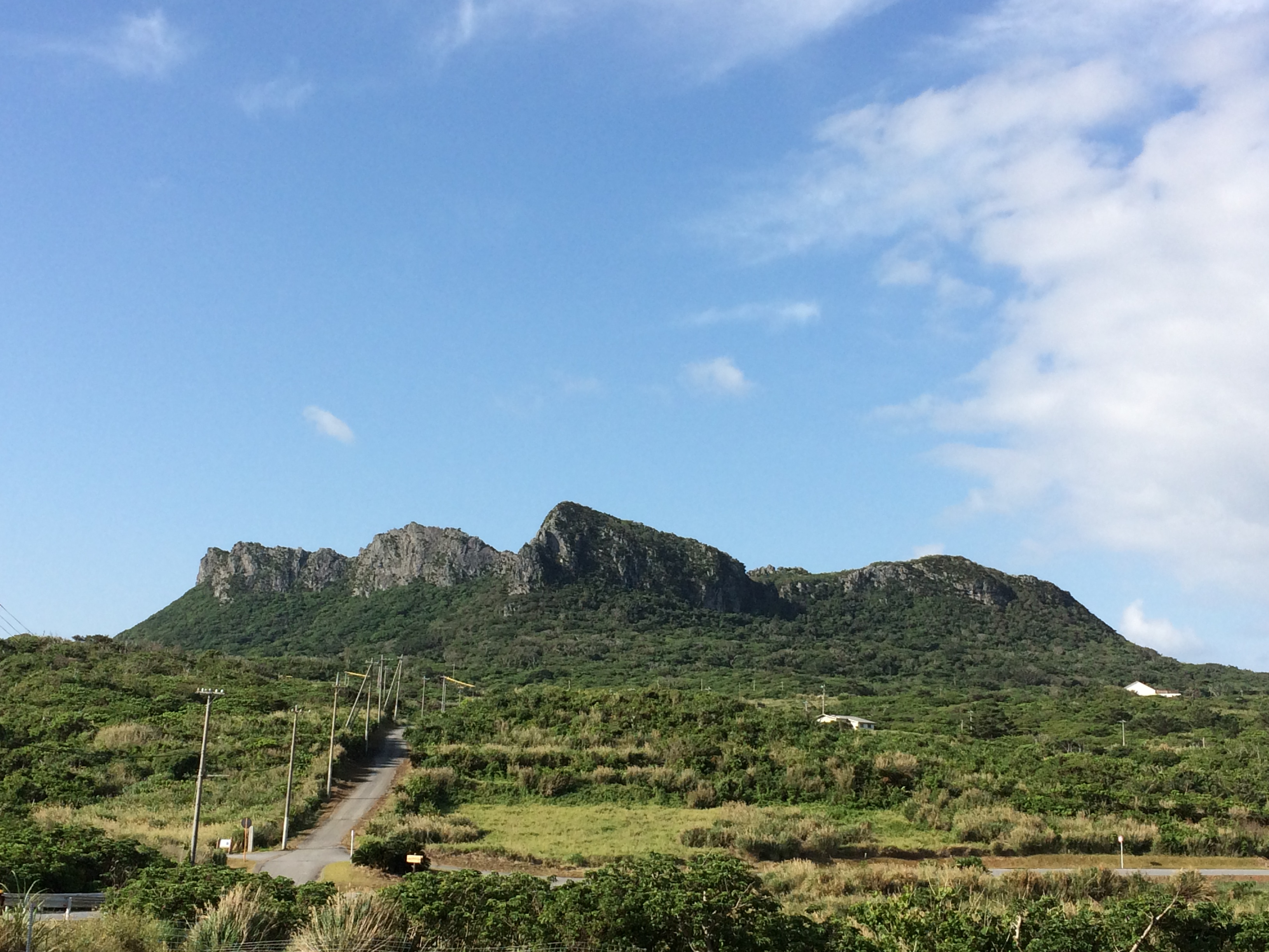 Asimui view from Cape Hedo.